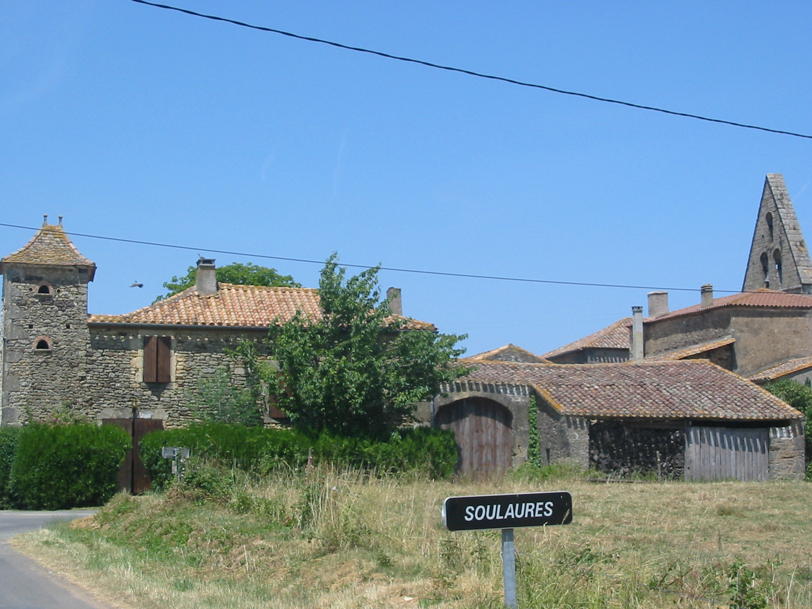 Soulaures (Dordogne)